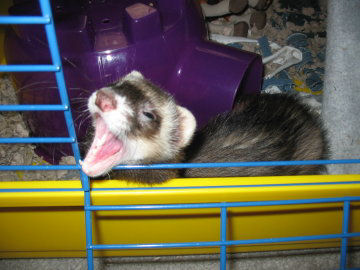 This is a picture of my ferret yawning...very cute.